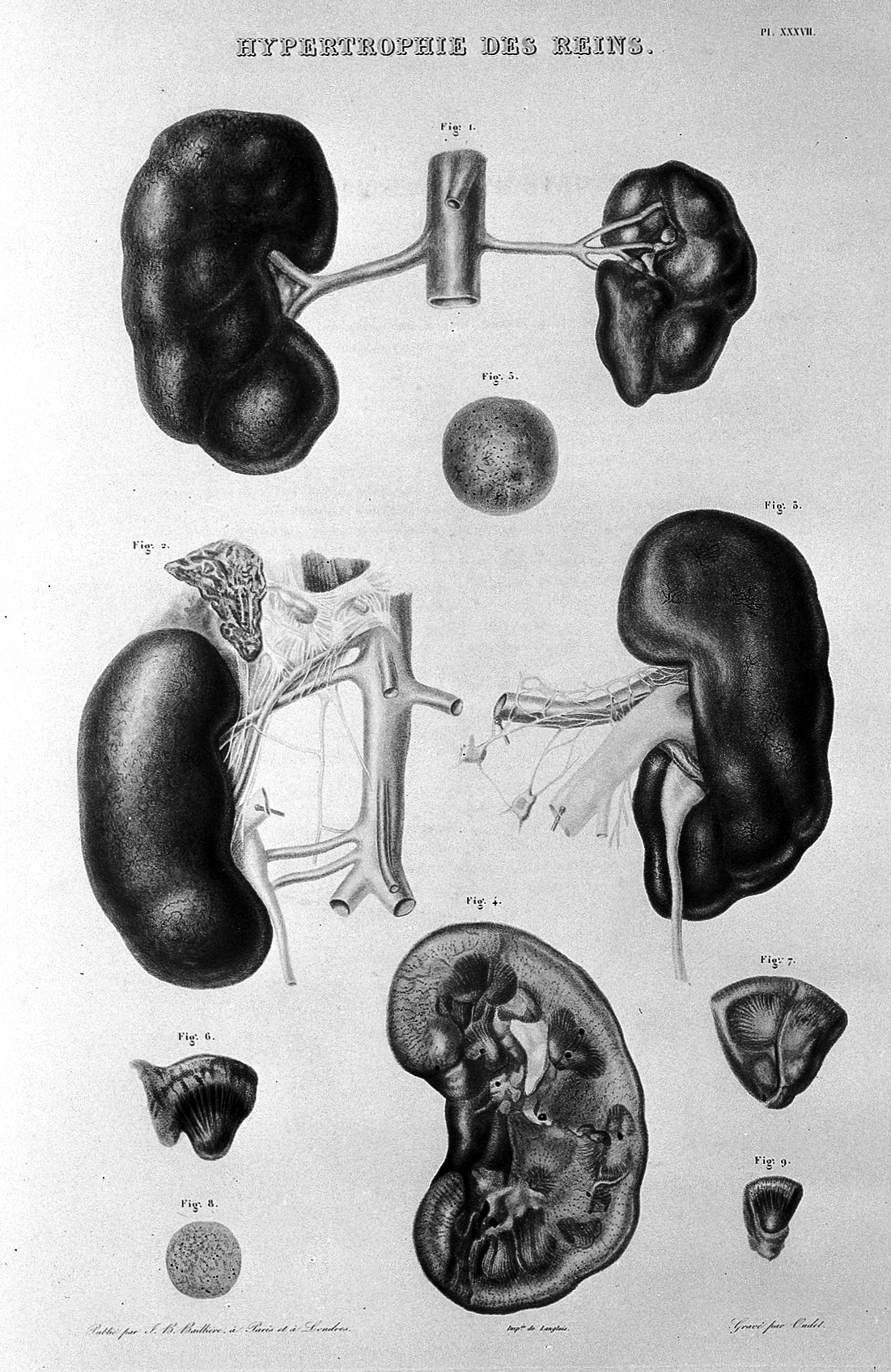 Kidney hypertrophy Rare Books Keywords: Pathology; Pierre Francois Olive Rayer